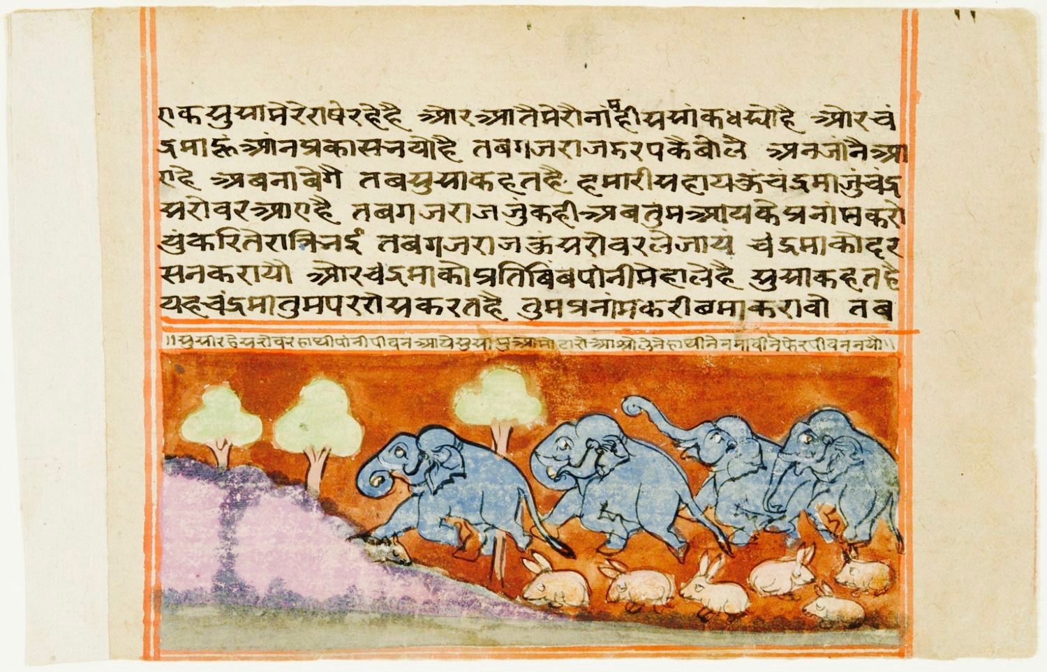 Source: Philadelphia Museum of Art A fable in Pancatantra Artist/maker unknown, Rajasthan, India, 18th century Medium: Opaque watercolor on paper Classification: Manuscripts Curatorial Department: South Asian Art Credit Line: Stella Kramrisch Collection, 1994 PMA Object Number: 1994-148-460